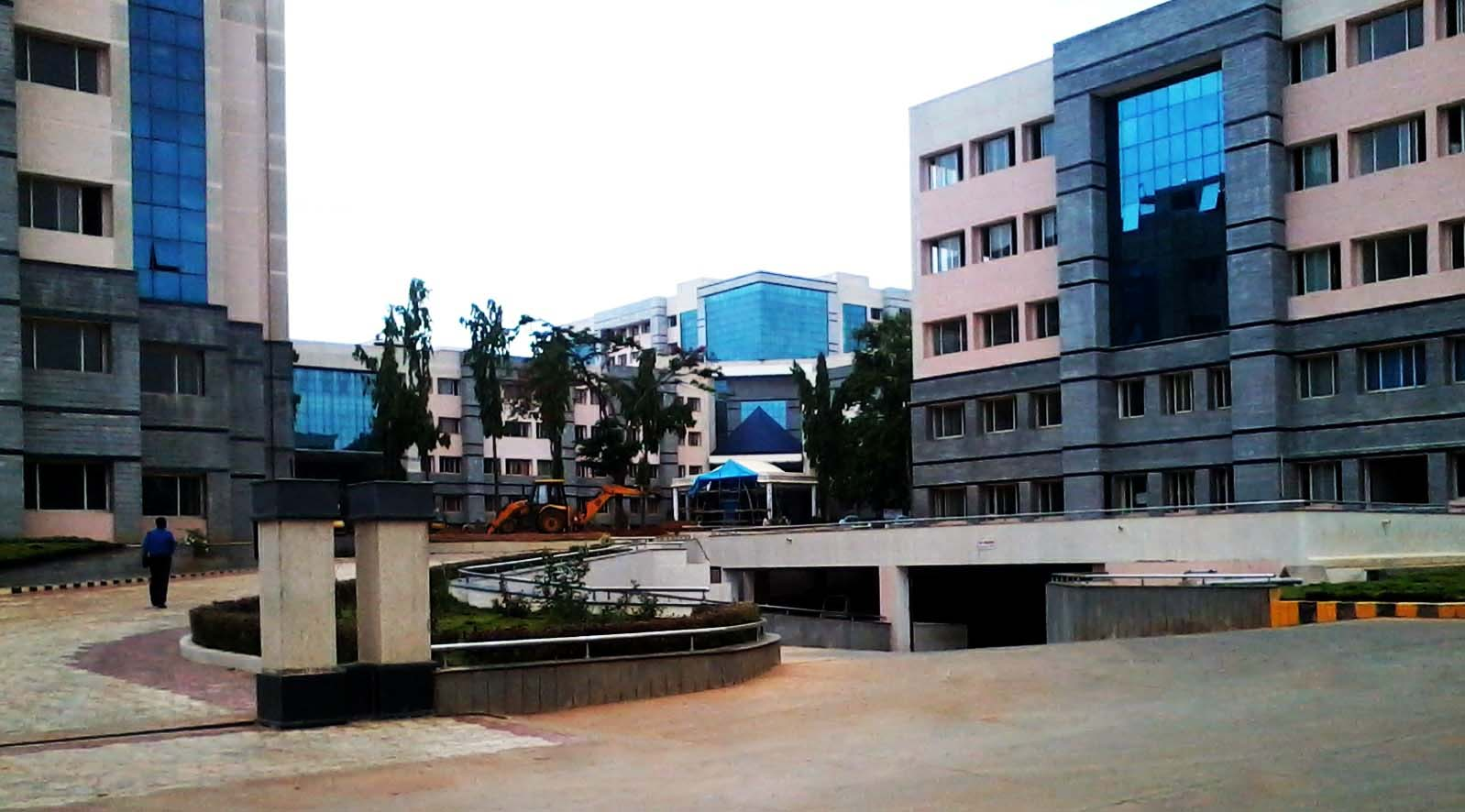 MSRIT is an engineering college in Bangalore, India. This is a view from the front gate